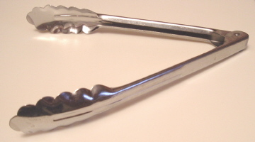 I took this picture to fulfill a requested at Requested Pictures.